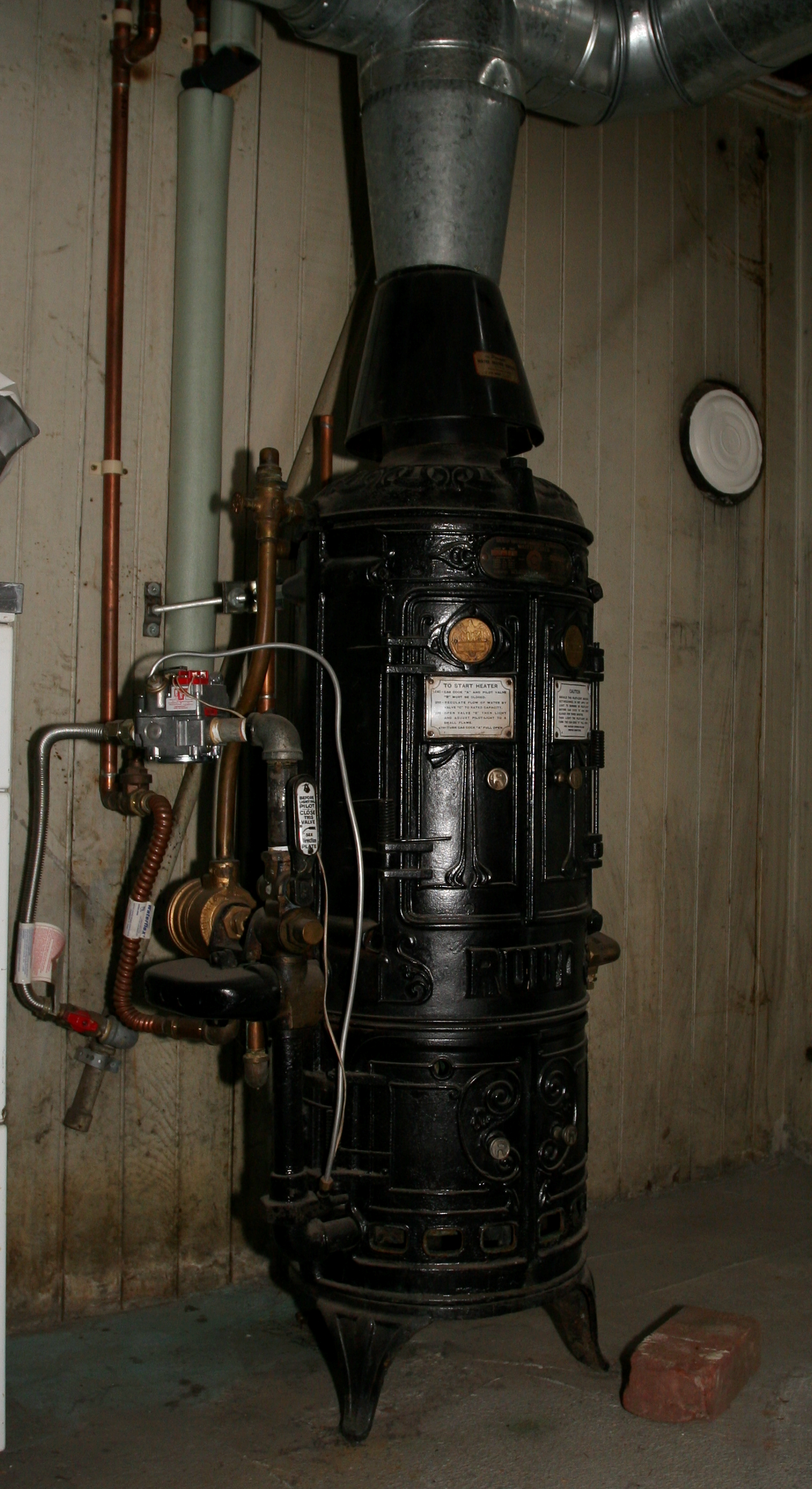 A photo of a Ruud instantaneous water heater, specifically a type F size no. 3 model. According to the Flickr description for the photo, this water heater was made in 1906 with the serial number 73107.